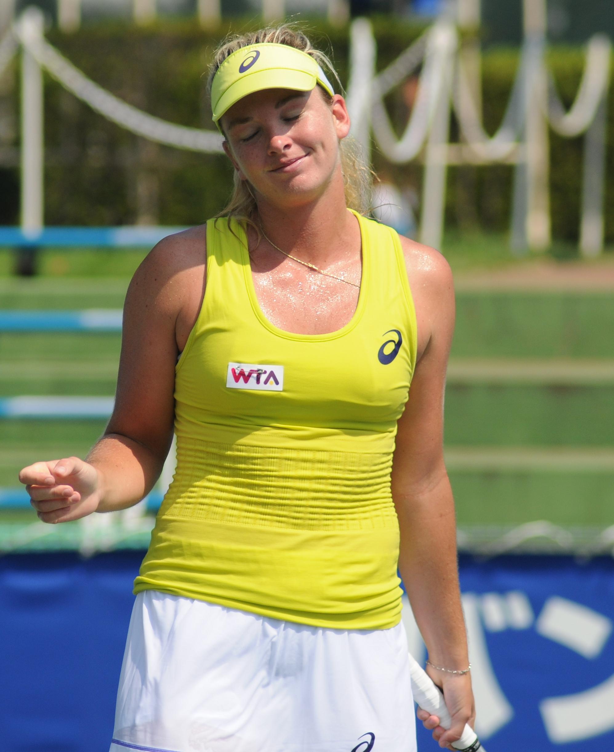 Coco Vandeweghe at the 2014 Toray Pan Pacific Open